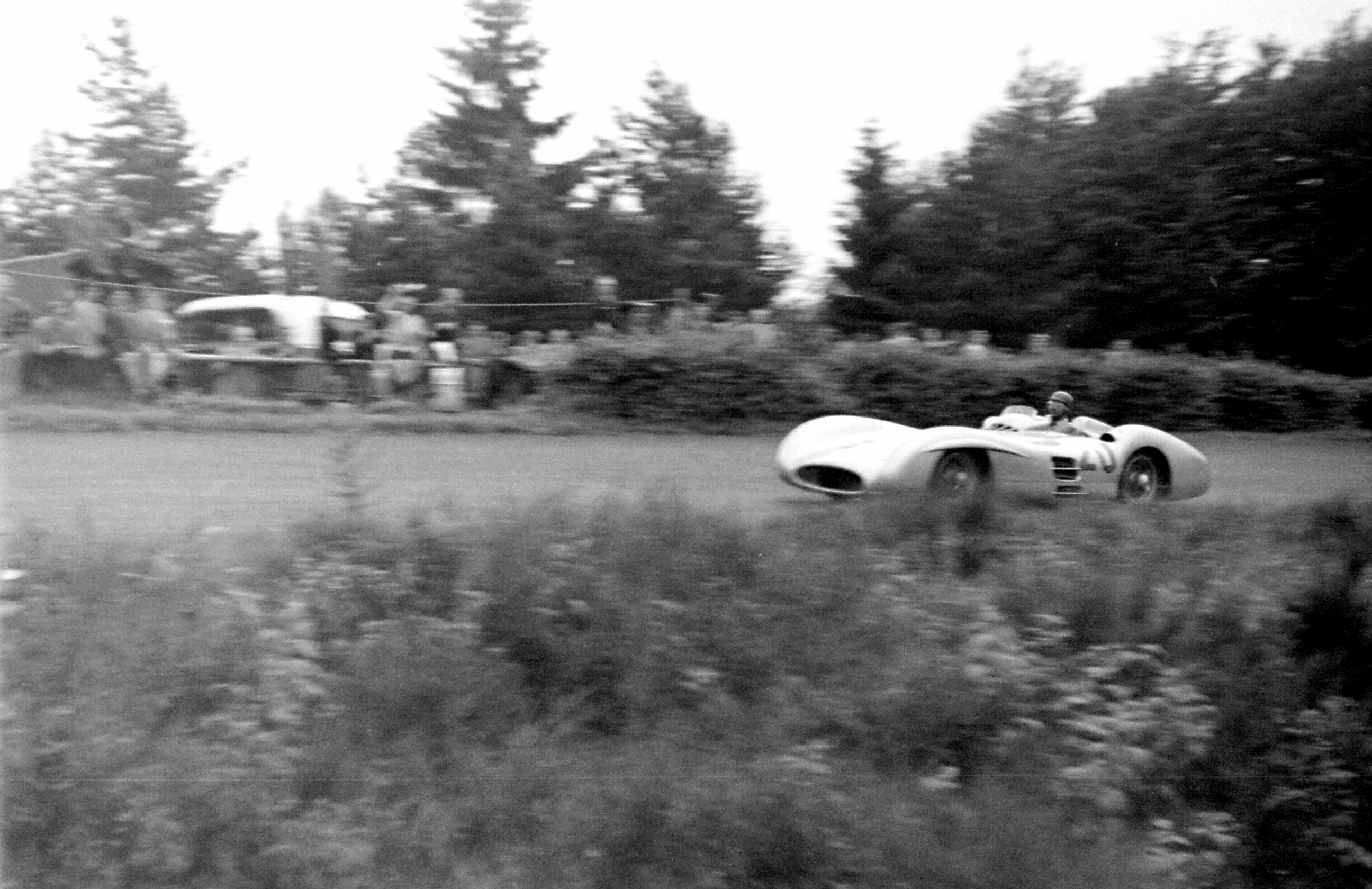 Grosser Preis von Europa, Formula 1, Nuerburgring Germany, August 1st, 1954, racing driver: Hans Herrmann, Mercedes Benz